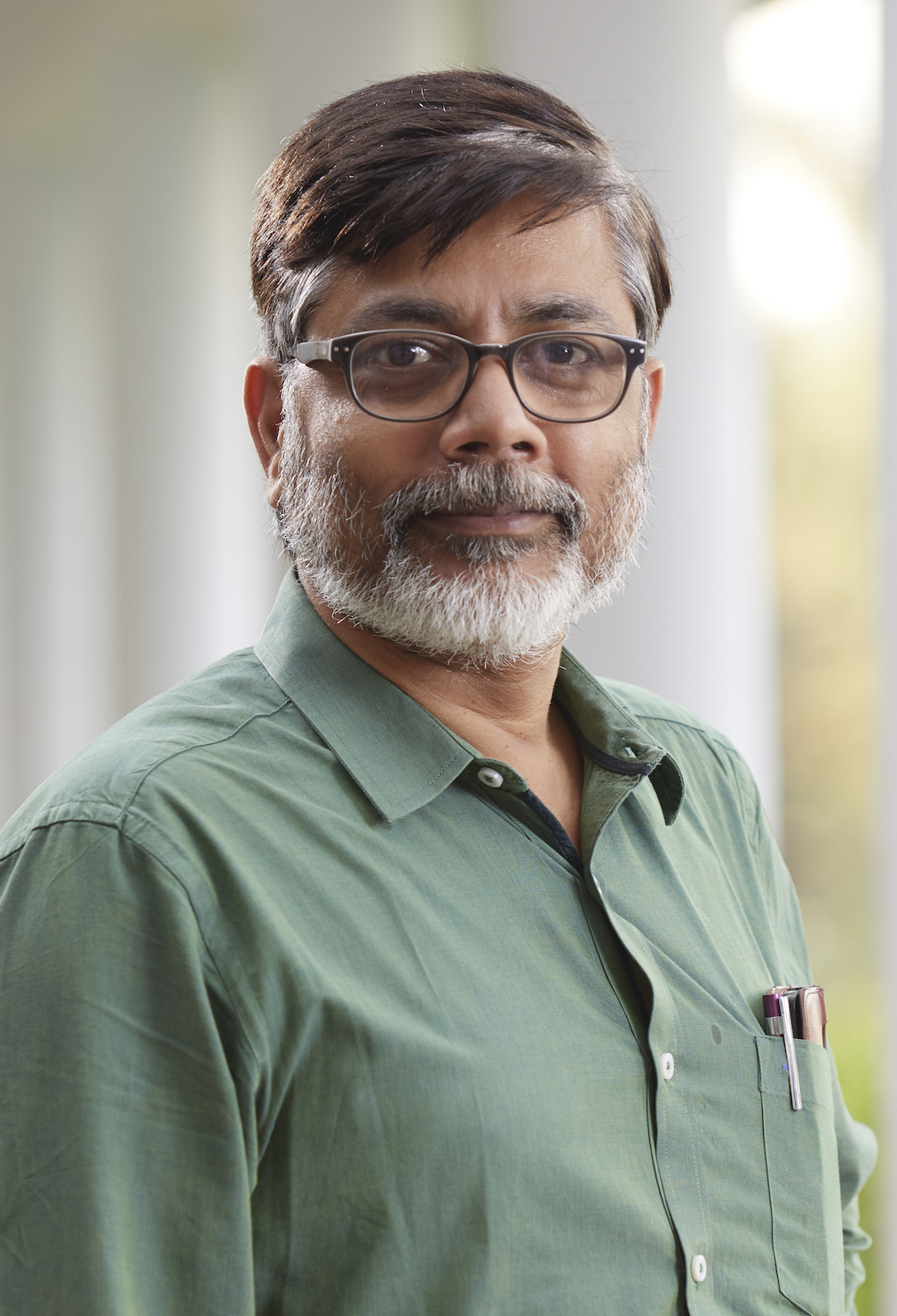 This photo was taken by me in a shooting.